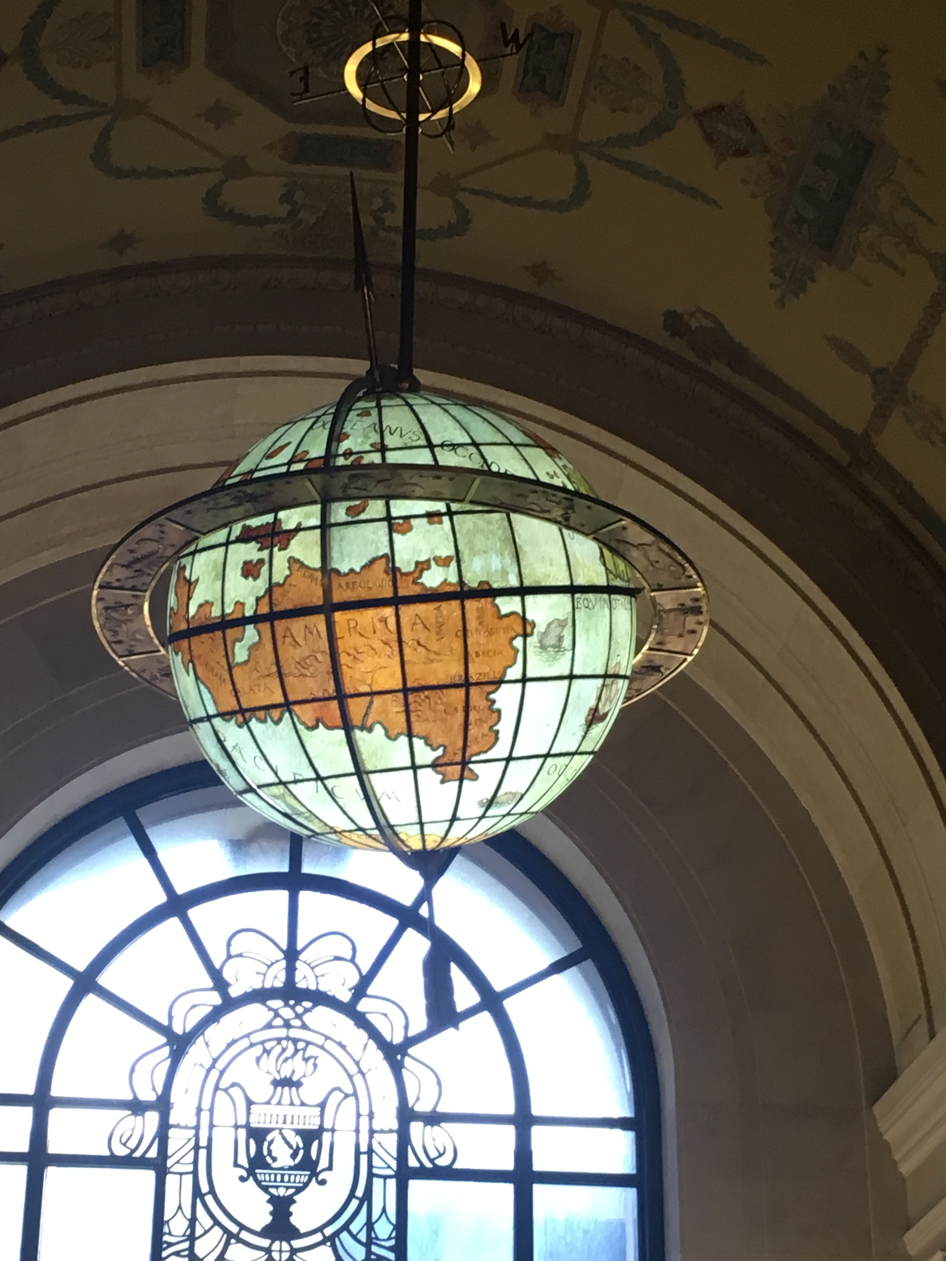 Terrestrial Globe created by Sterling Bronze Company in 1925, which hangs at the entrance hall ceiling at the Main, Cleveland Public Library.